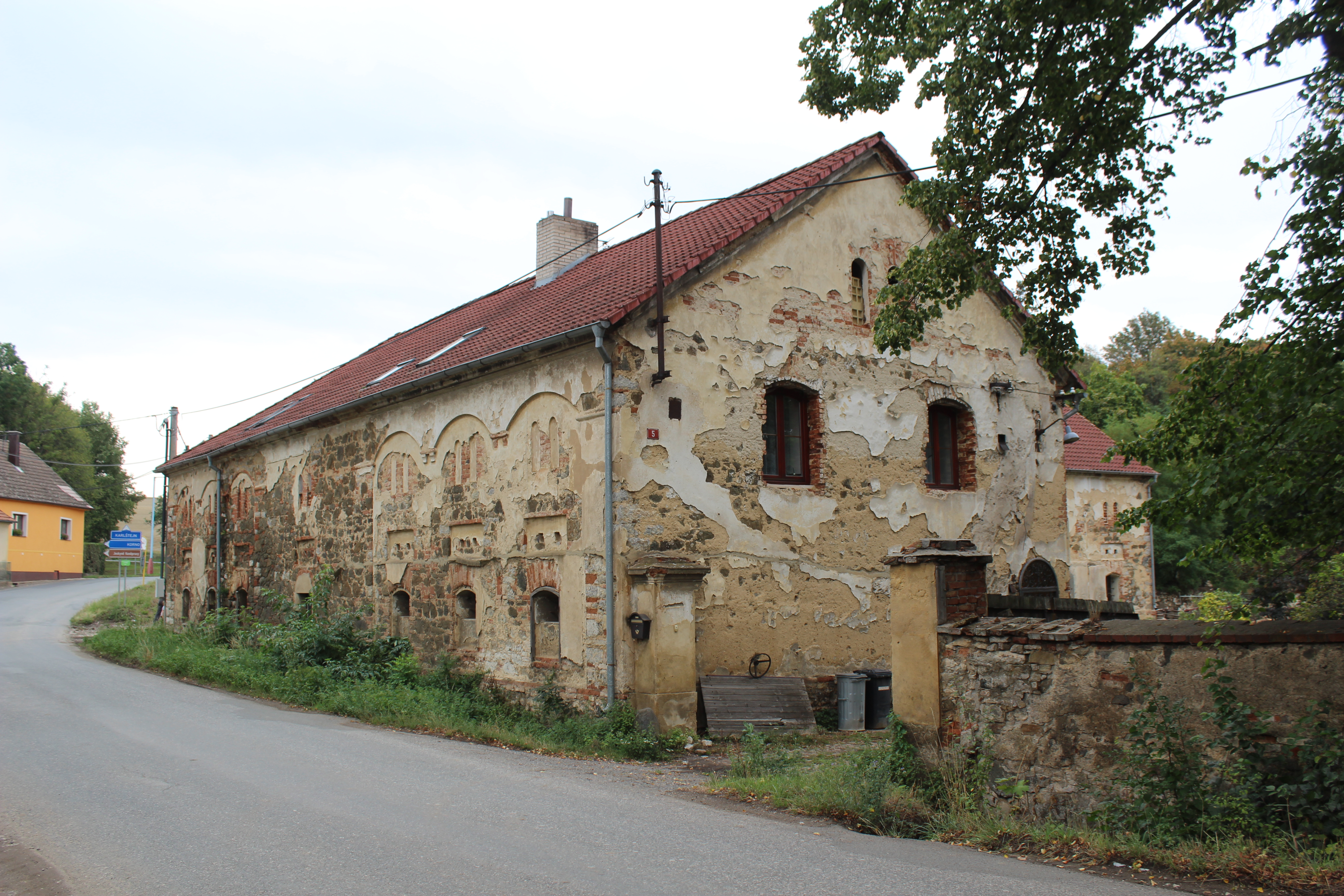 Former farmyard Dolní Vlence (Beroun District).House no. 285